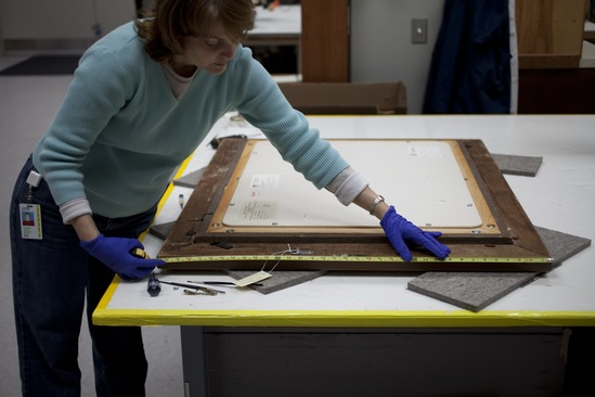 IMA Conservation technician Laura Mosteller measures the frame of a painting. Courtesy of the Indianapolis Museum of Art.